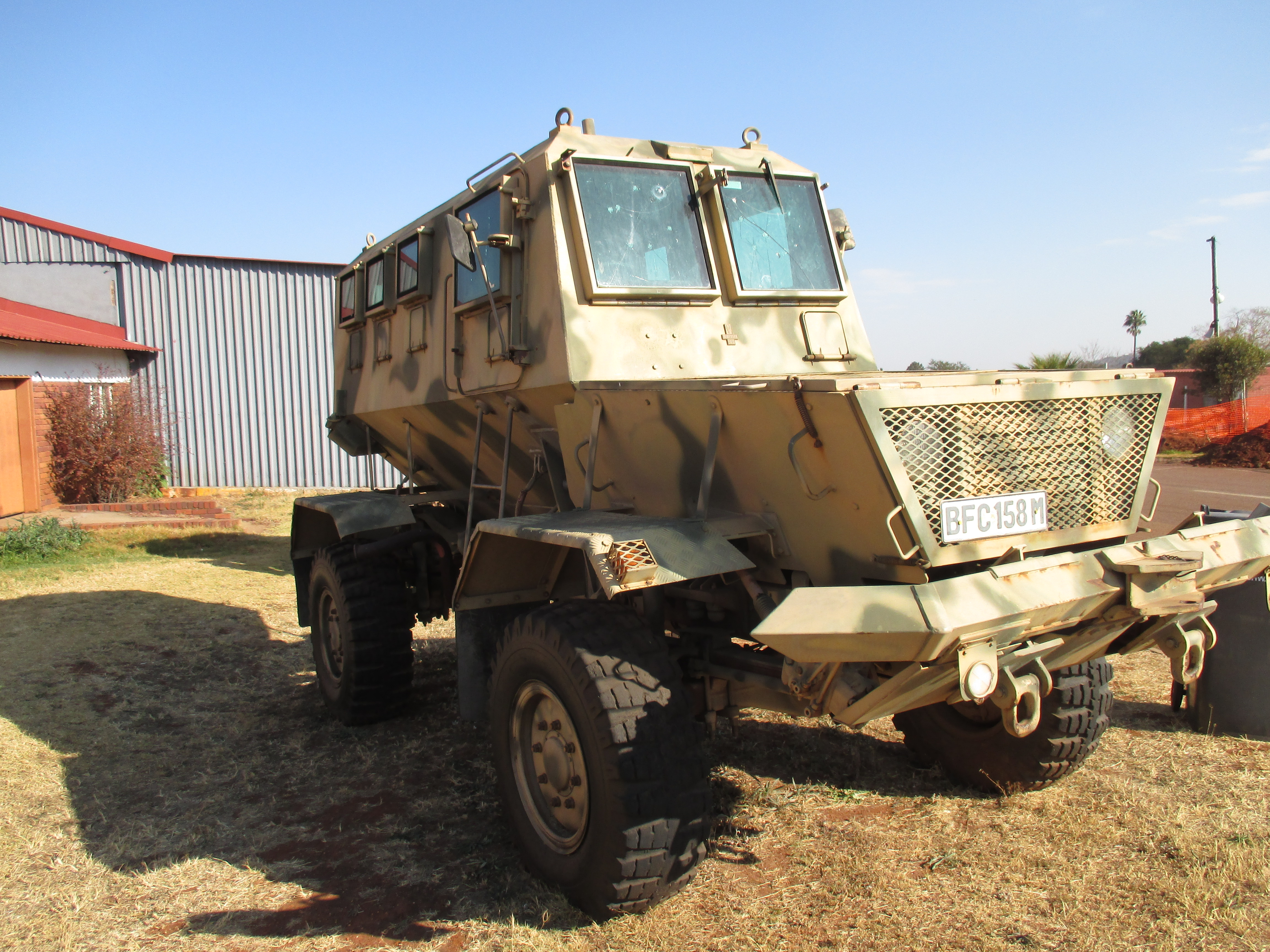 Description: Armoured personnel carrier outside Swartkop Air Force Base, Pretoria.